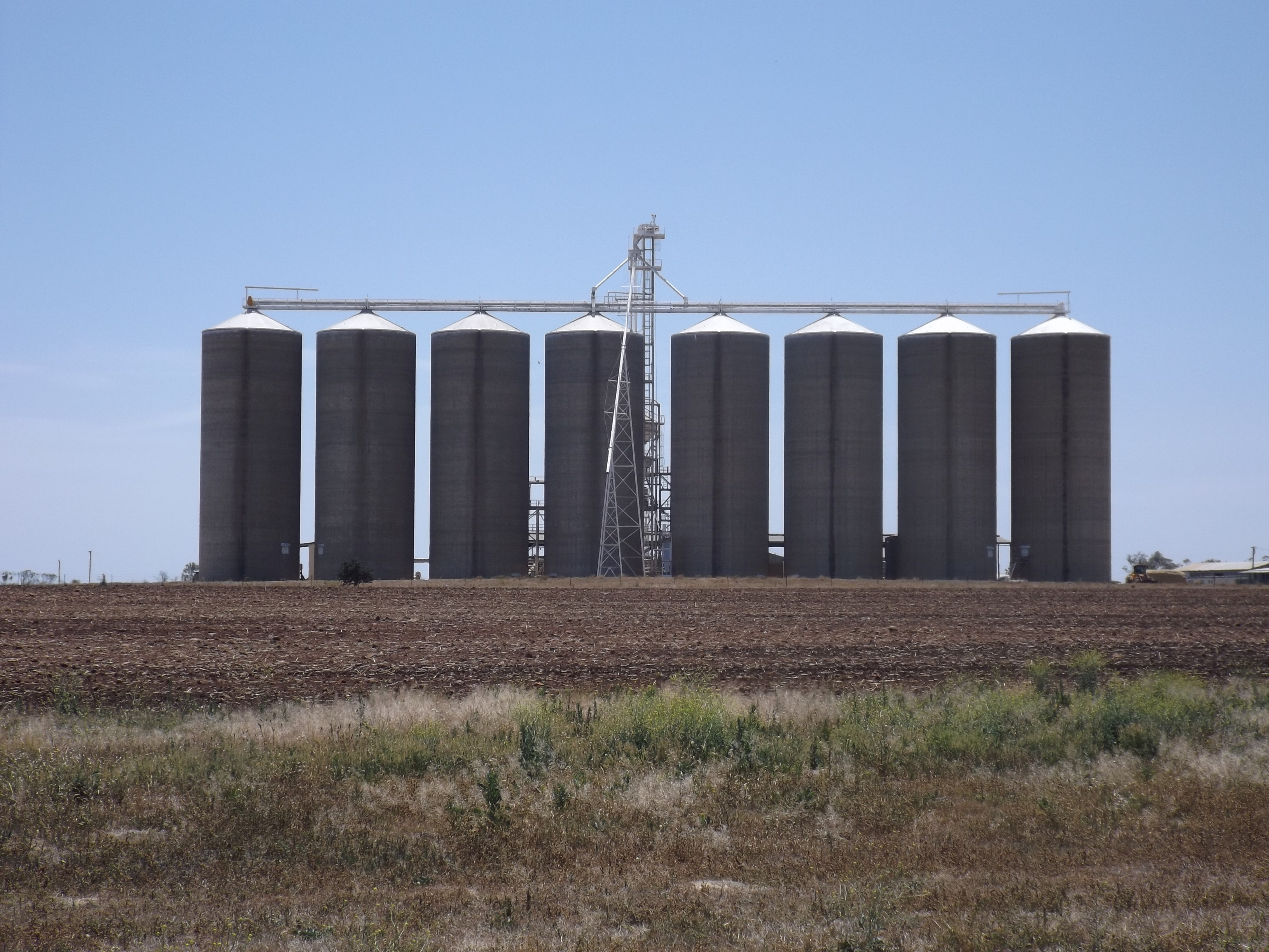 Photo of silos at Purrawunda, Queensland, Australia.